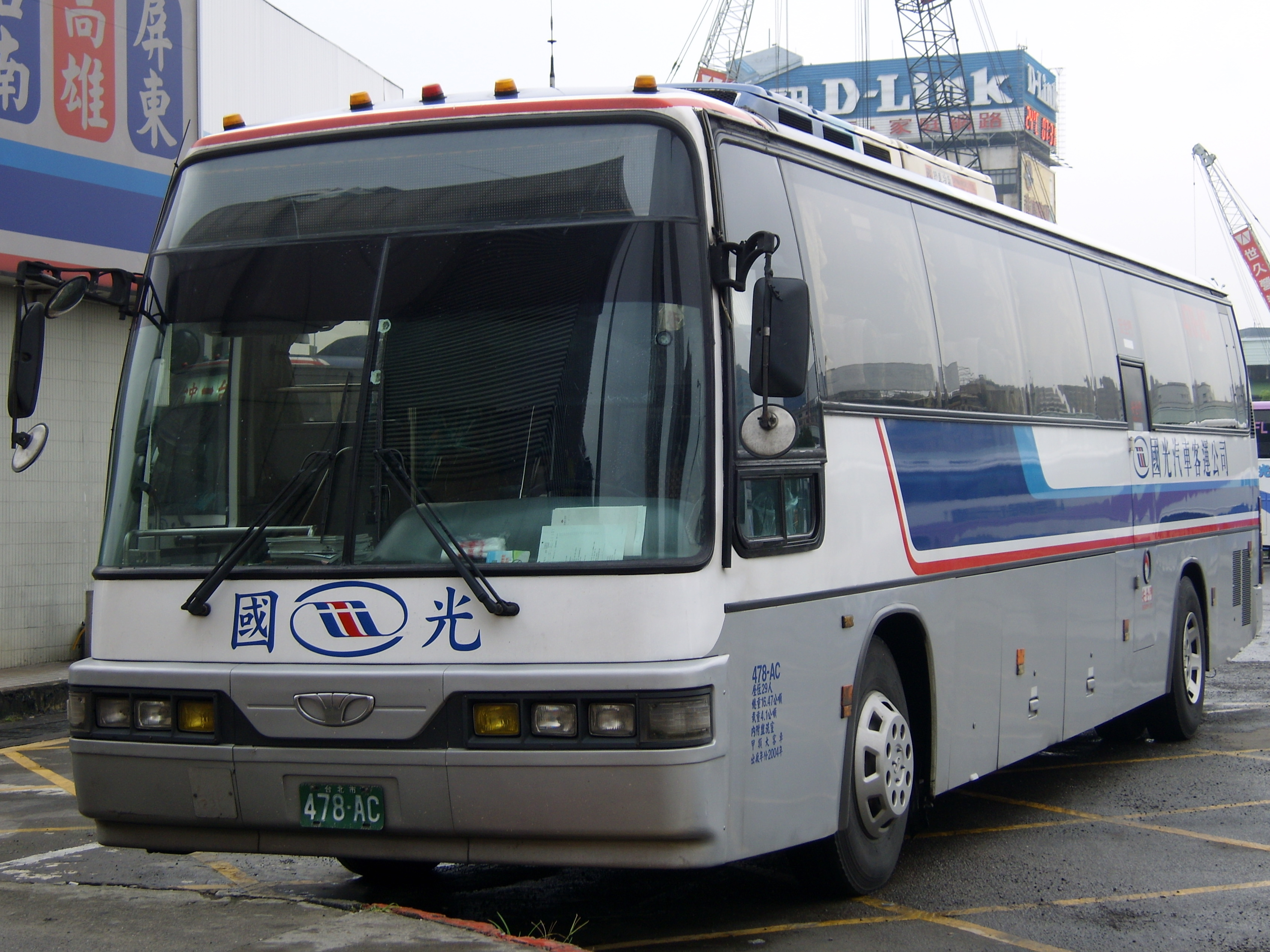 Kuo-kwang Bus (Taiwan) operated freeway bus line with Daewoo BH Series, in this picture is BH120-3T bus.